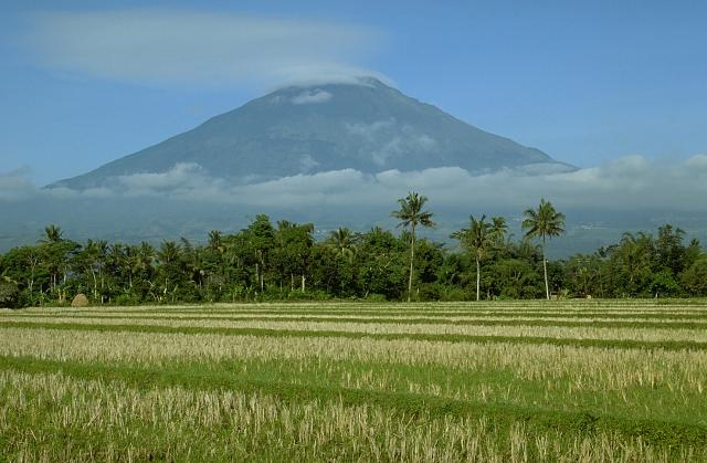 Sumbing stratovolcano rises above rice fields in Java island to 3371 m immediately to the SE of Sundoro volcano.